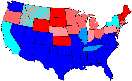 Summary of party control of U.S. house seats in the 76th United States Congress following election. Stripes indicate a tie between two or more parties. Legend: 80.1-100% Democratic seat majority 60.1-80% Democratic seat majority 60% or less Democratic seat plurality 60% or less Republican seat plurality 60.1-80% Republican seat majority 80.1-100% Republican seat majority